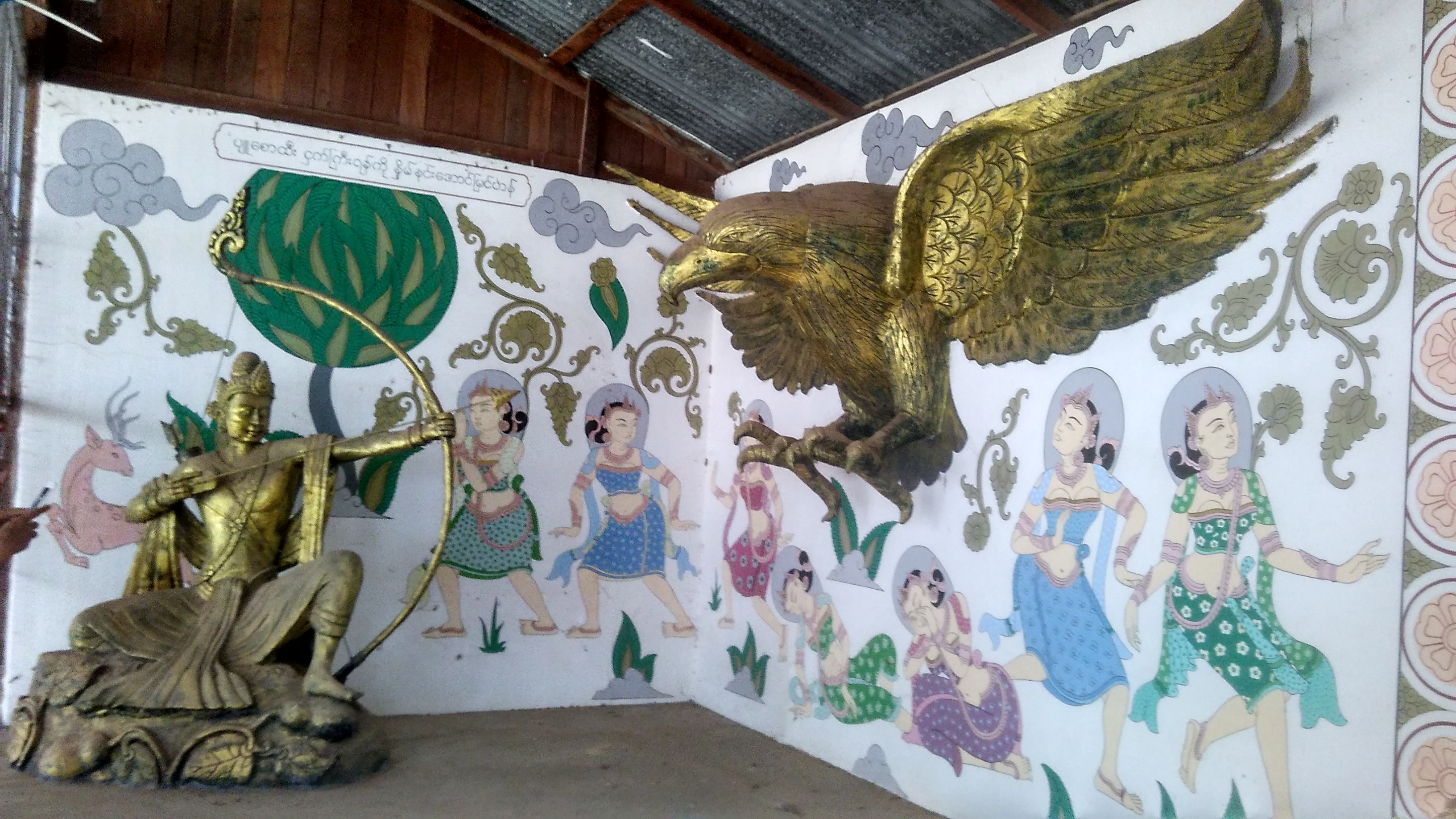 Shooting the bird မြန်မာဘာသာ: မန္တလေးတိုင်းဒေသကြီး၊ ပုဂံ၊ ငှက်ပစ်တောင်စေတီတော်ရှိ ပုံဖြစ်သည်။ မင်းသာသည် ငှက်ကြီးအား လေးဖြင့်ပစ်ခွင်းနေပုံ ဖြစ်သည်။